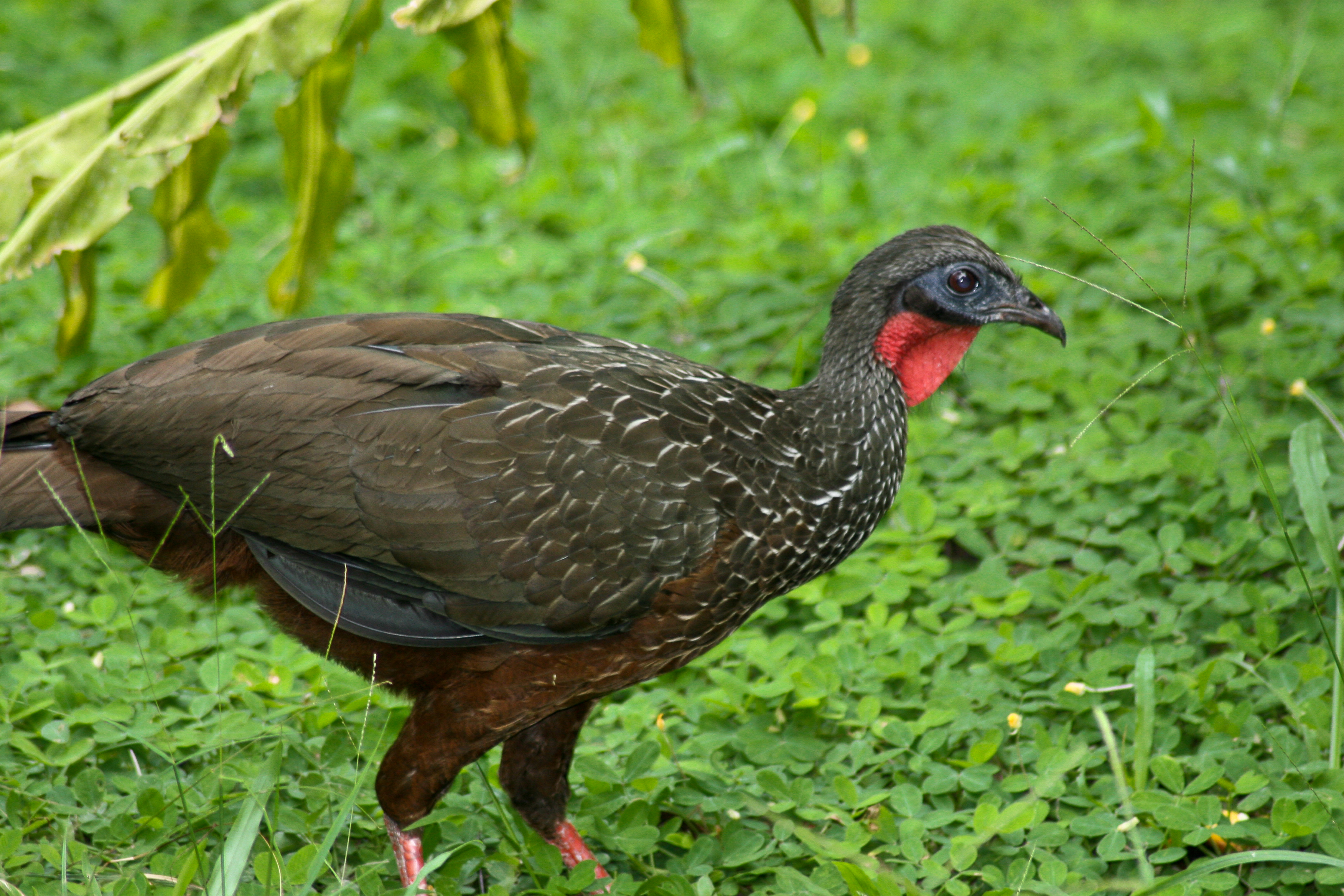 A Spix's Guan (Penelope jacquacu) roaming the Amazon rainforest near Iquitos, Peru.